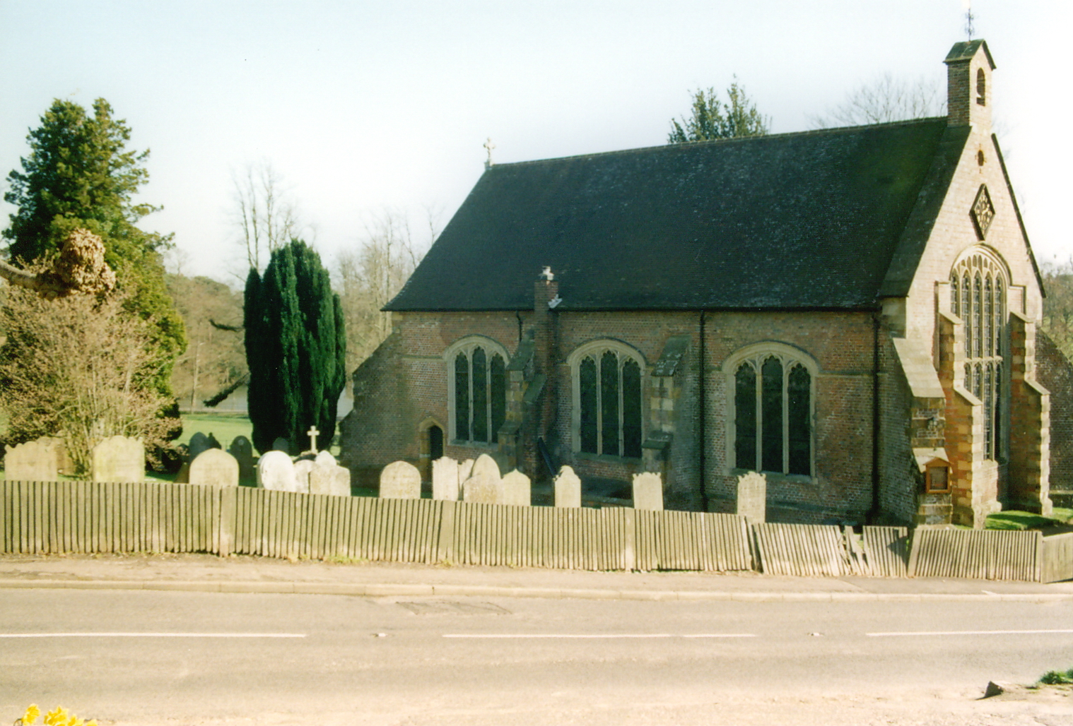 Church at Grommbridge